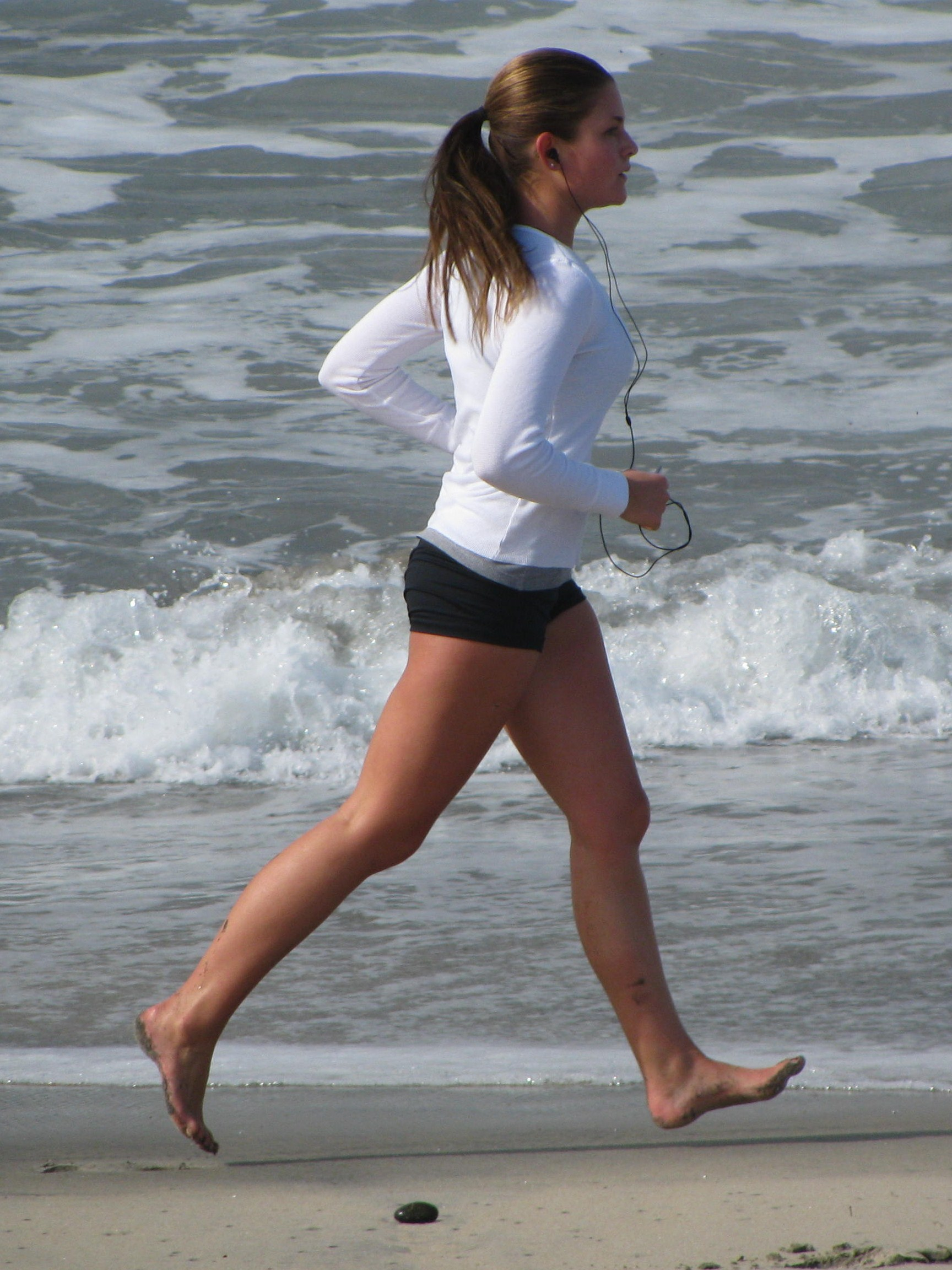 Woman running barefoot on beach